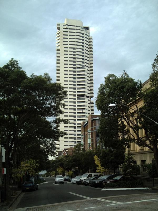 Horizon Apartments, Darlinghurst, Sydney, Australia, by architect Harry Seidler. Seen from a southerly aspect, the intersection with Liverpool Street.